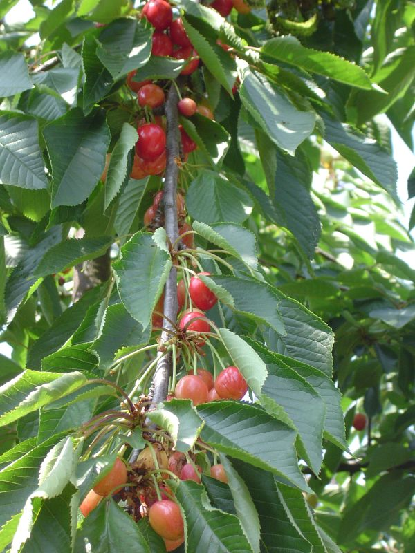 Cherries on a branch of cherry tree